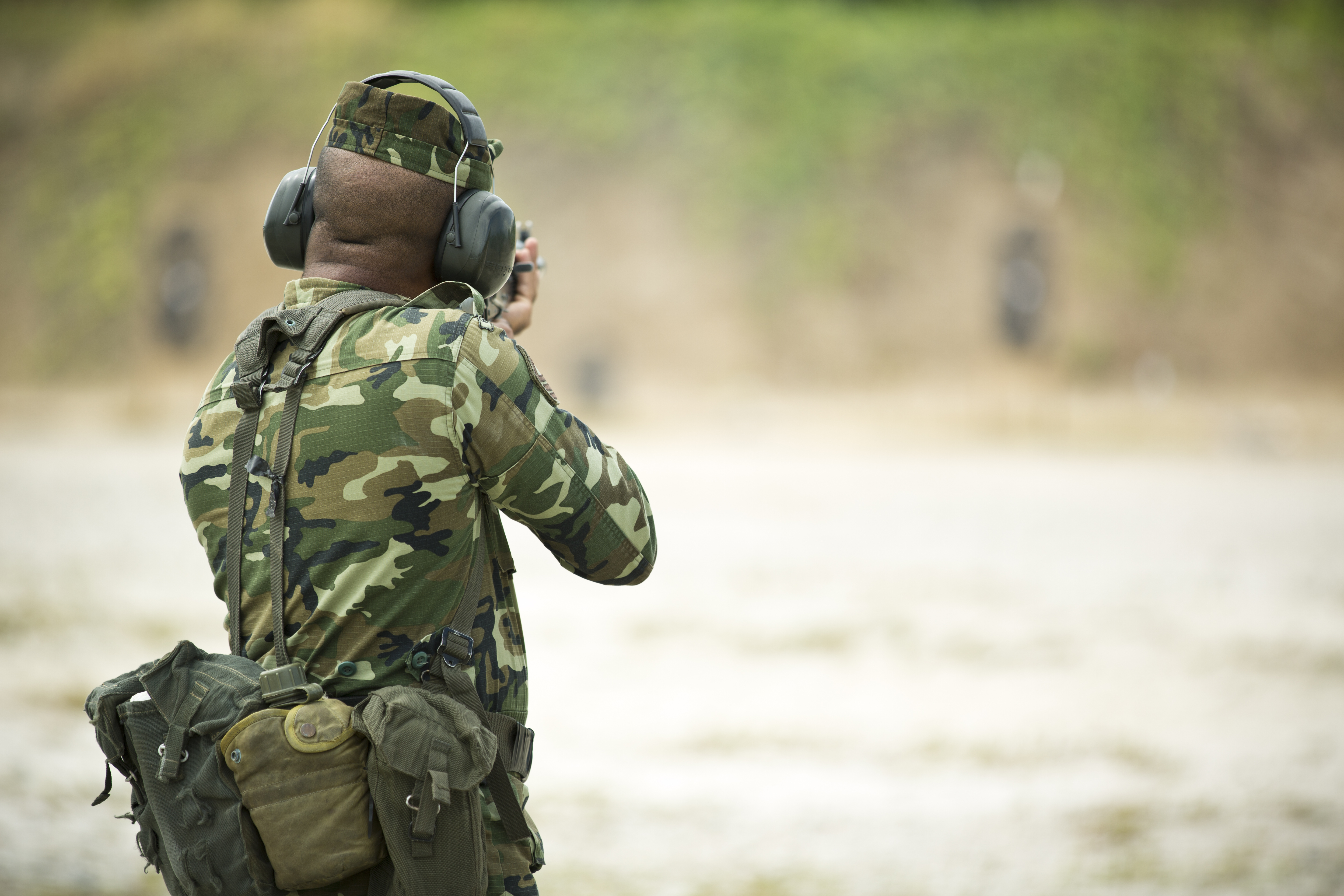 A Maldives National Defense Force (MNDF) service member fires his rifle during an annual rifle qualification on the island of Girifushi, Maldives, Jan. 16, 2014. U.S. Marines with Marine Corps Forces, Pacific observed the training evolution to learn MNDF tactics, techniques and procedures in preparation for an upcoming training event with Maldivian marines.